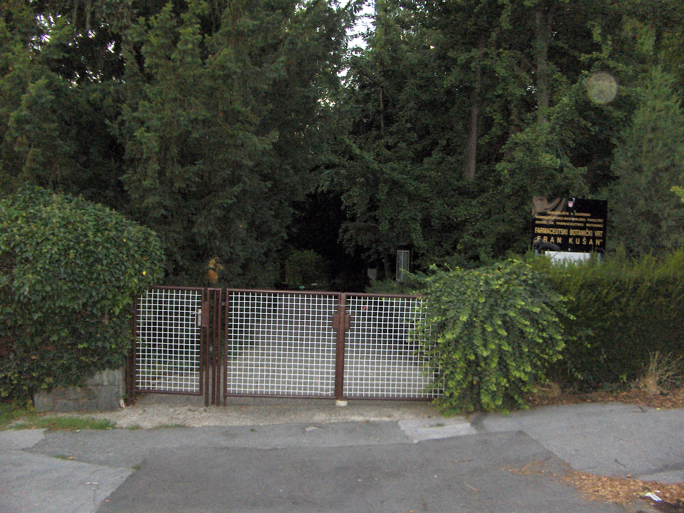 The entrance of "Fran Kušan" botanical garden in Šalata neighborhood of Zagreb, Croatia